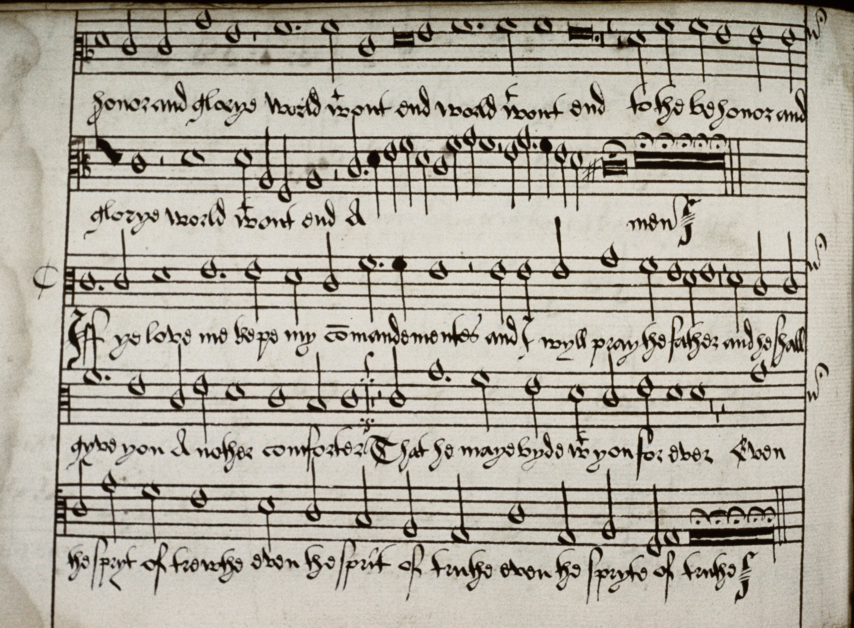 If Ye Love Me, an anthem composed by Thomas Tallis (c. 1505 – 1585), preceded by the end of Remember not, O Lord God by Tallis, in the Wanley Manuscript, now in the collection of the Bodlean Library, Oxford University